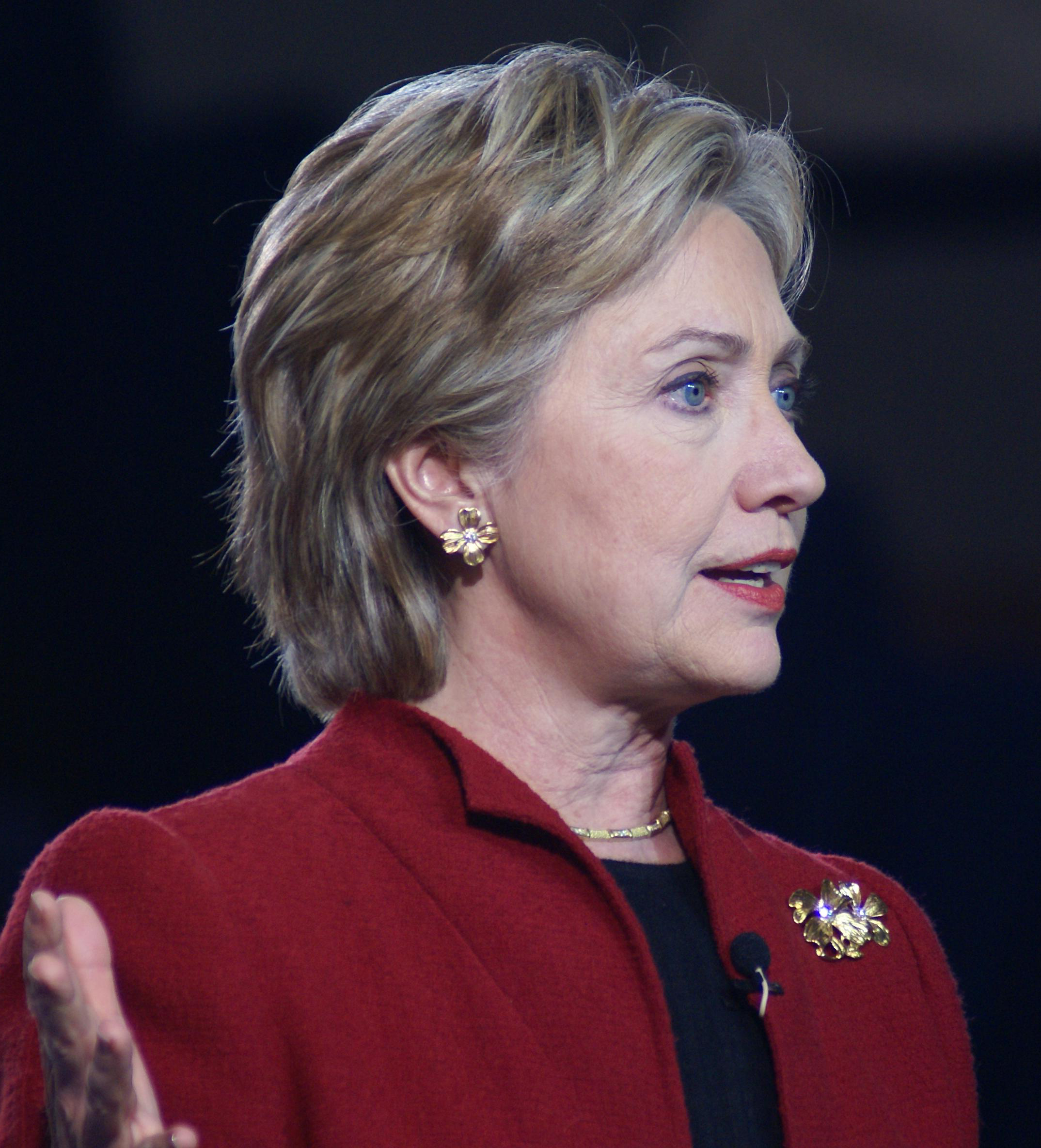 Senator Clinton @ Hampton, NH